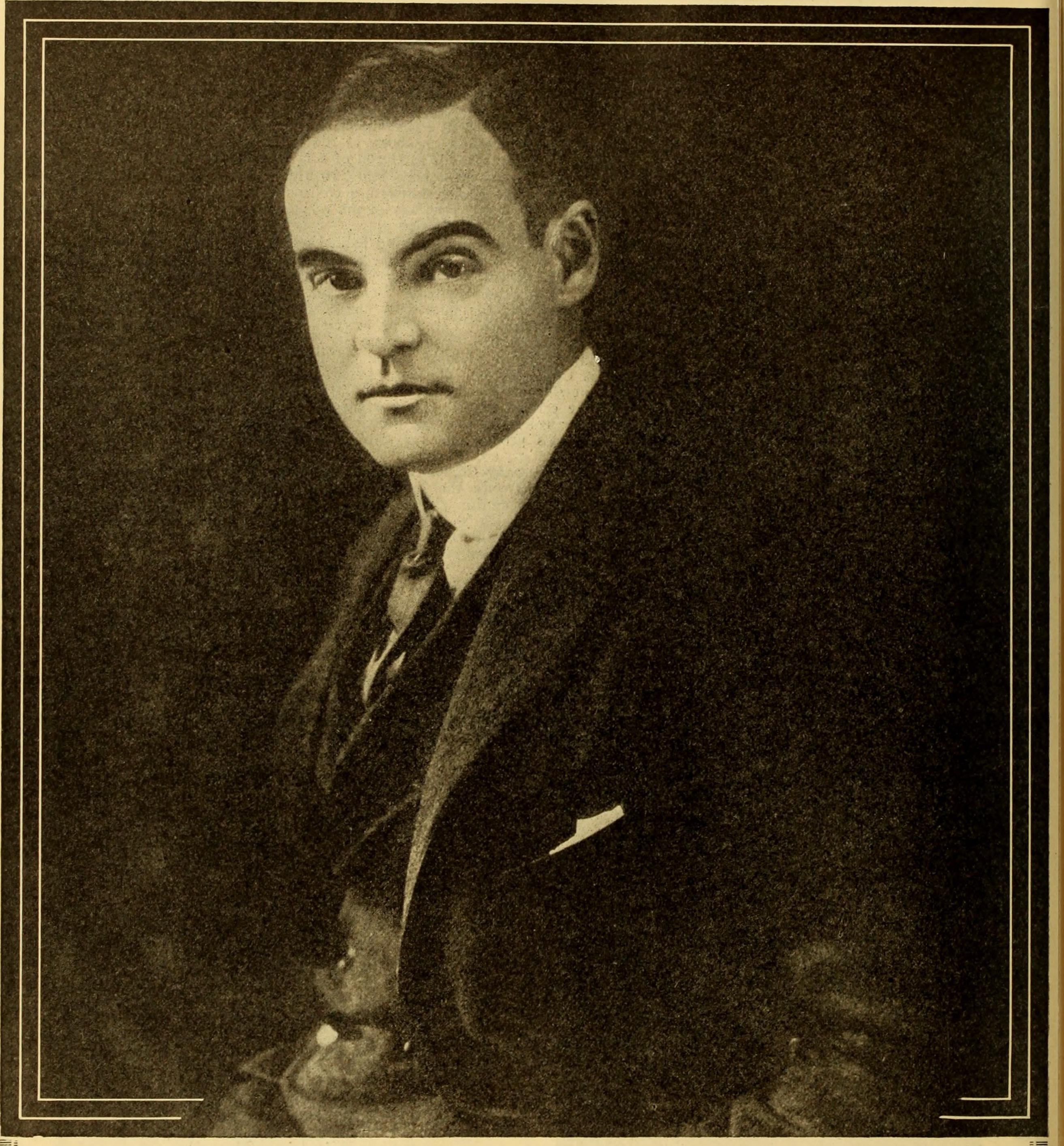 Title: Motion Picture Studio Directory and Trade Annual (1916) Year: 1916 (1910s) Authors: Motion Picture News, Inc. Subjects: Motion Pictures Film Industry Yearbook nyarc-museumofmodernart Publisher: New York, Motion Picture News, Inc. Text Appearing Before Image: JACK SHERRILL (Frohmans Wonder Boy)Frohman Amusement Corp. Then Ill Come Back to YouConquest of CanaanThe Witching Hour Address, 18 East 41st St., N. Y. C. MMUN: Mil i!,;:,,::;; li,; :;i,; M;;..:; ;, :,;;;;: ,i!... -,, ;;,, ;i:;;: ,; !M .,;.; ,;i;, ;; , Be sure to mention MOTION PICTURE NEWS when writing to advertisers 170 MOTION PICTURE NEWS Vol. XIV. No. 16. Section 2 Text Appearing After Image: HOWARD ESTABROOK MR. ESTABROOK made his first screen appearance in 1914 as the star of Officer 666, and is now permanentlyaligned with film productions. Has starred in features for George Kleine-General Film, World Film, Metro,Pathe Gold Rooster, International, etc. Most recent, International Film Service serial, The Mysteries of Myra.Appeared in many stage successes in New York and London, including The Dictator, Brown of Harvard, Onthe Quiet, Going Some, The Boss, Within the Law, Little Women, etc.; travelled two years in Italy, Switzer-land and France; devoted a year to writing and stage direction. Last stage appearances, star of Search Me, and withElsie Janis in Miss Information. Prepared for University of Michigan, but chose business career, eventually leaving County Treasurers Office, Detroit,for stage career. Is married to Gretchen Dale. Member of Society of American Dramatists and Composers, and LambsClub, New York. iiiiiiiiiiiiiiiiiiiiiiiiiiiiiiiiiiiiiiiiiiiiiiiiiiiiuiiiiiiii